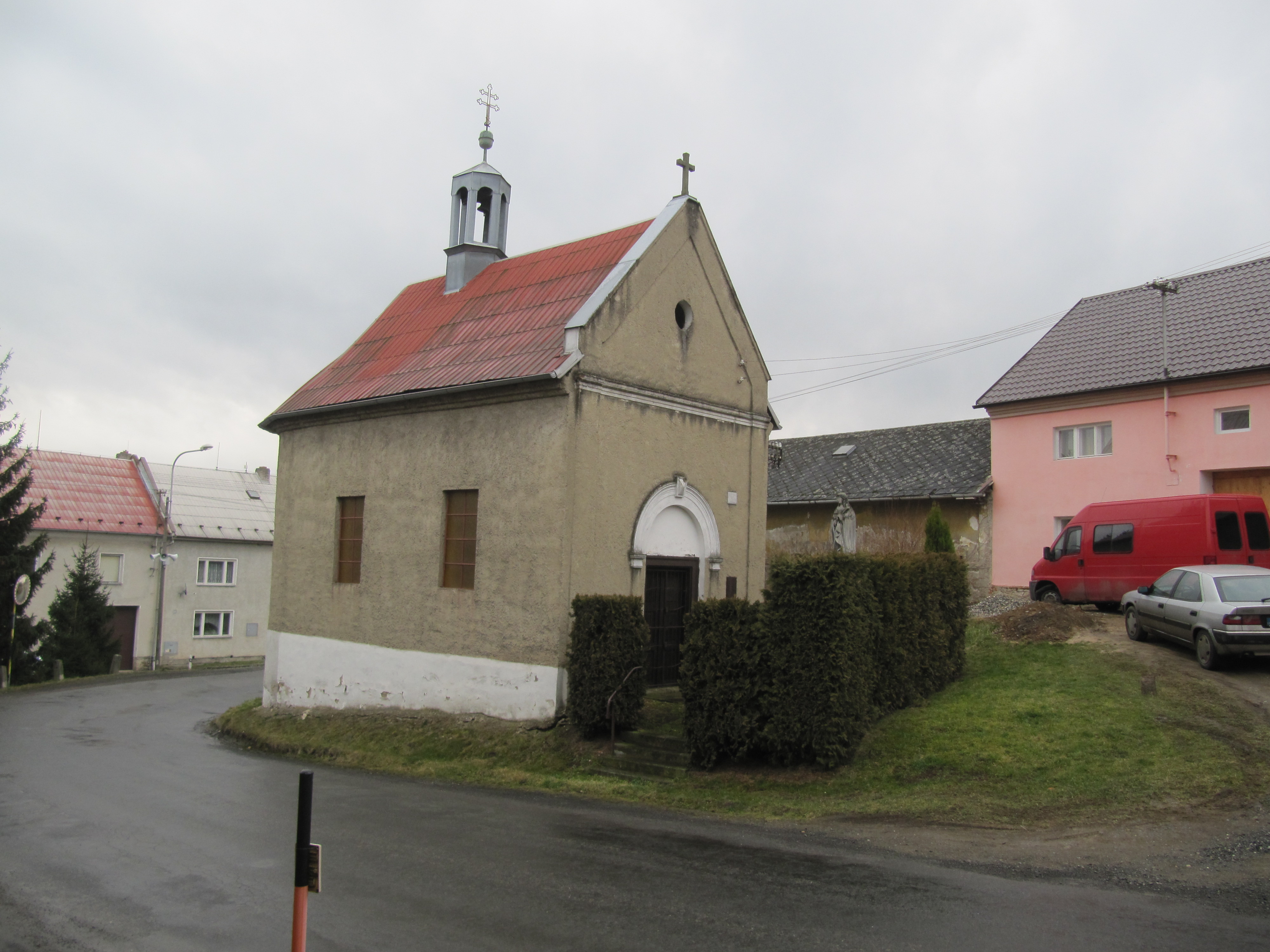 Tršice, Olomouc District, Czech Republic, part Hostkovice.